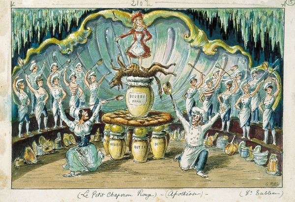 Scan of a drawing by Georges Méliès, showing Red Riding Hood standing in triumph over a slain wolf, while her family and their bakery staff salute her. The pedestal on which Red Riding Hood stands is made of large butter pots and a giant pastry, while the background is a classical grotto of stalactites and a vast rococo shell. The handwritten caption on the drawing reads Le Petit Chaperon Rouge - Apotheose - 8e Tableau (Red Riding Hood - Apotheosis - 8th Tableau). The source webpage, from the Bibliothèque nationale de France, indicates that this drawing was made by Méliès in preparation for his film.